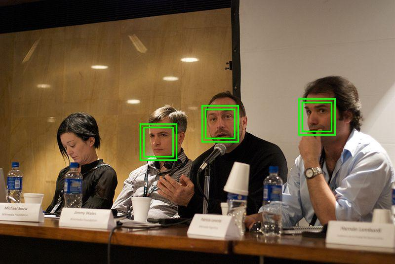 Illustration of automatic face detection.